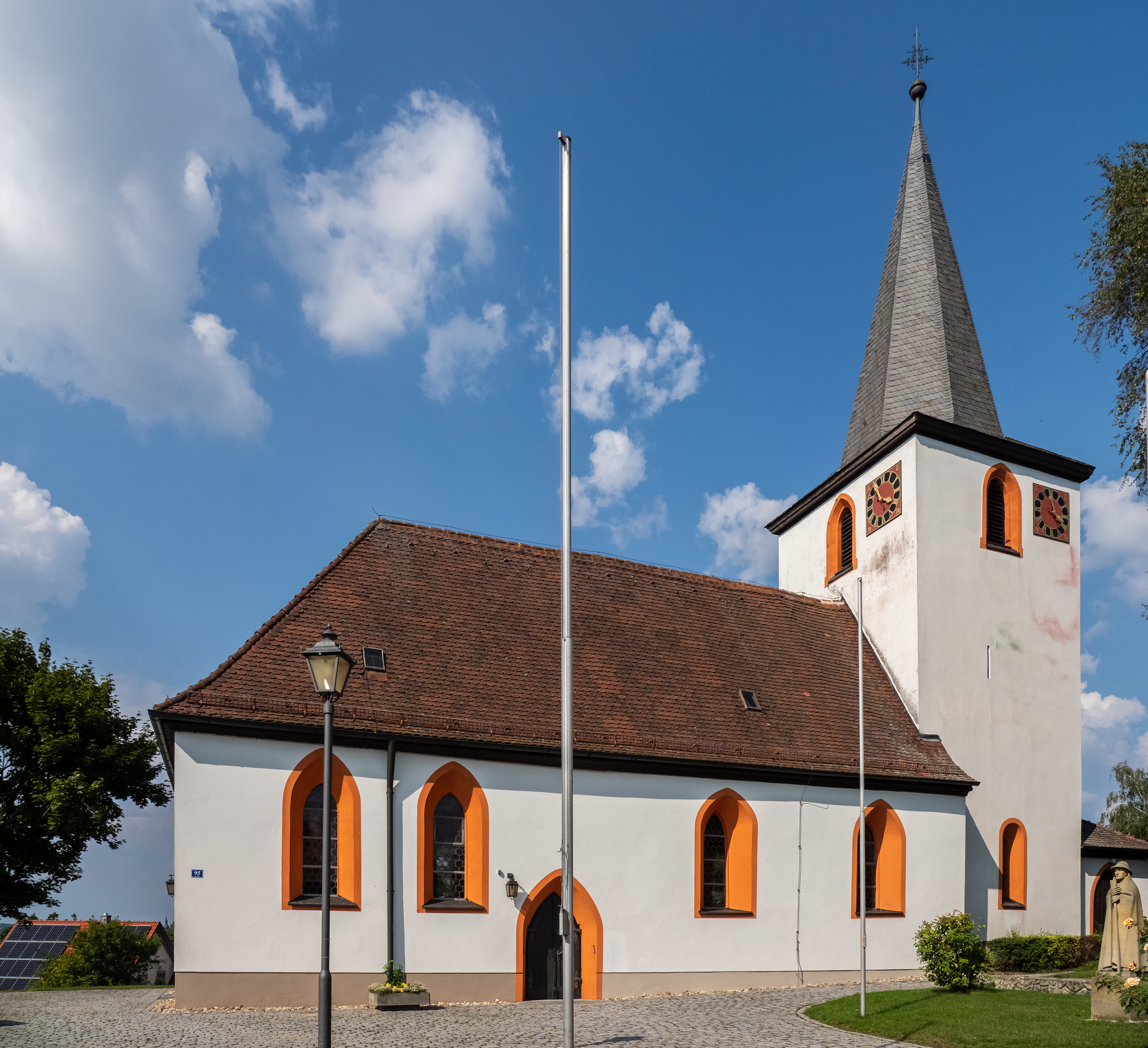 St. Vitus, Catholic Church in Sterpersdorf near Höchstadt an der Aisch